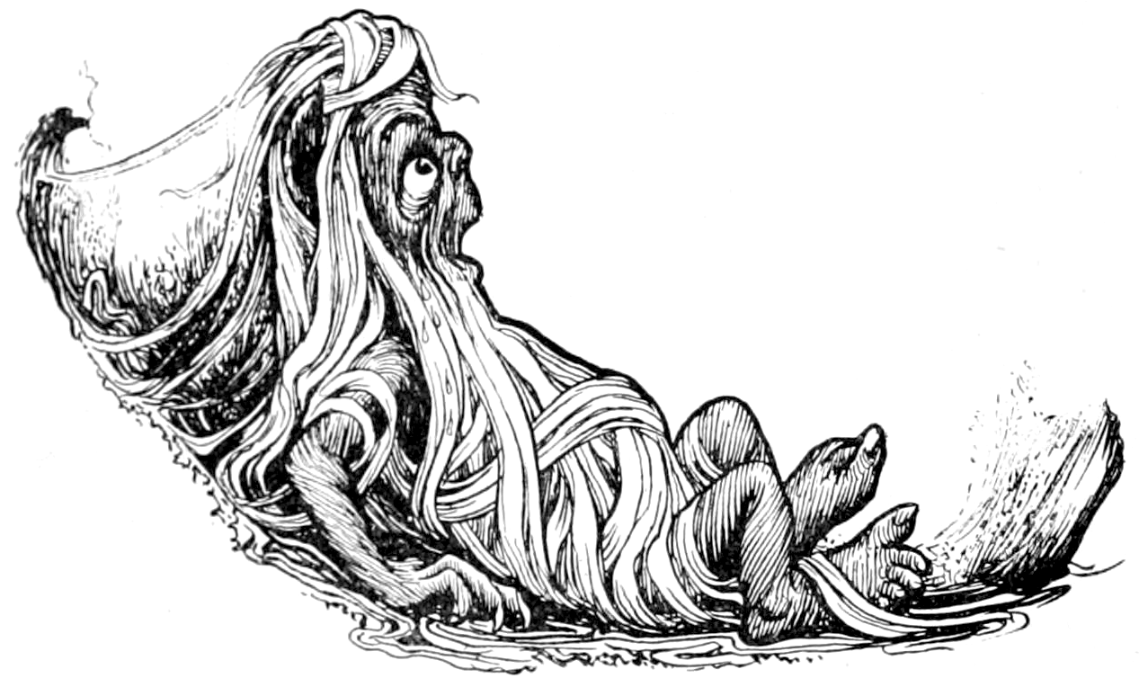 Scan illuatration on page of book in a series of fairy tales. A warning to children.